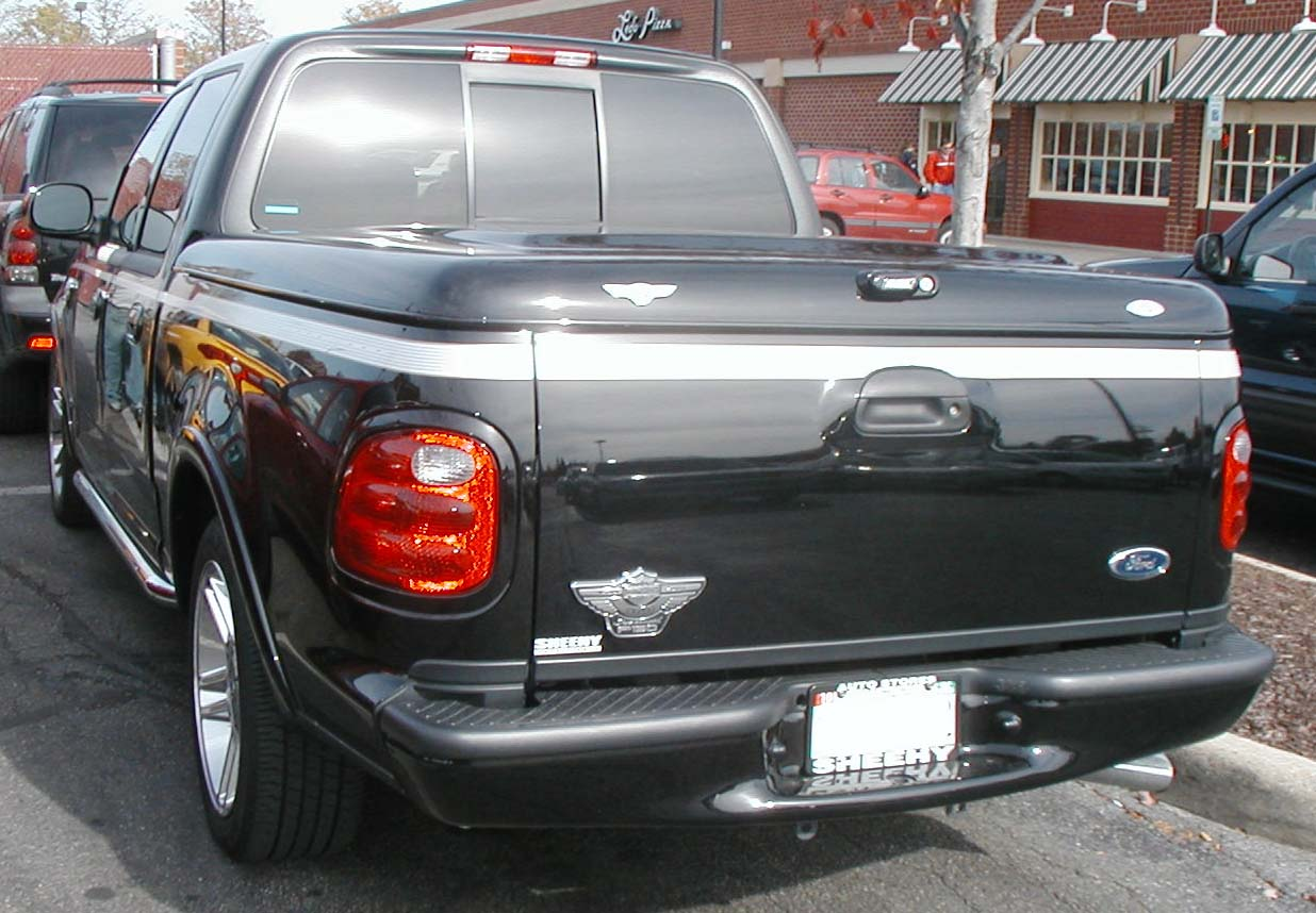 2001-2003 Ford F-150 SuperCrew Harley-Davidson photographed in USA.